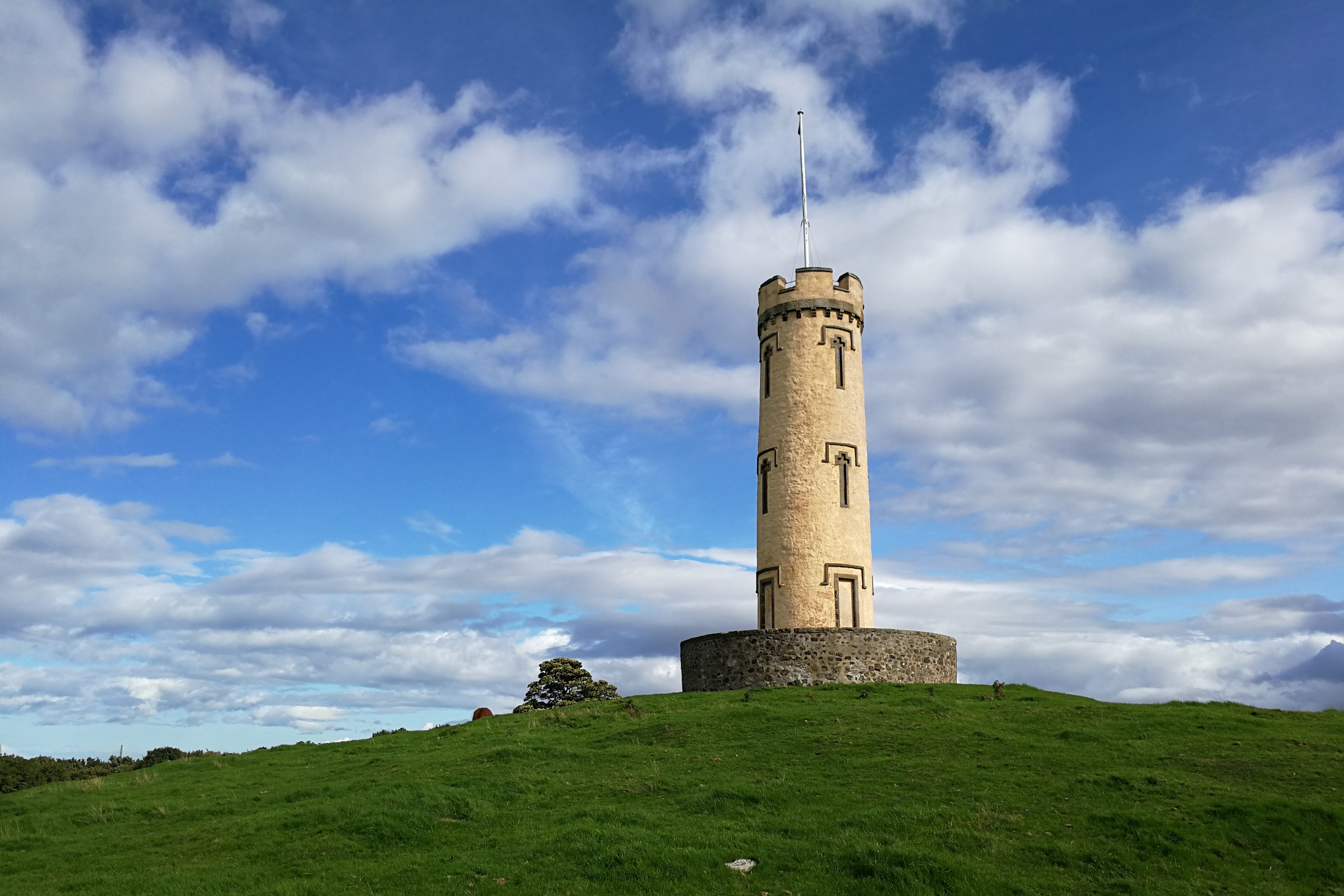 House Of The Binns, Tower Wikidata has entry Q17849775 with data related to this item.